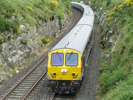 Photo of Enterprise train at Cloghogue, taken 13th June 2006.